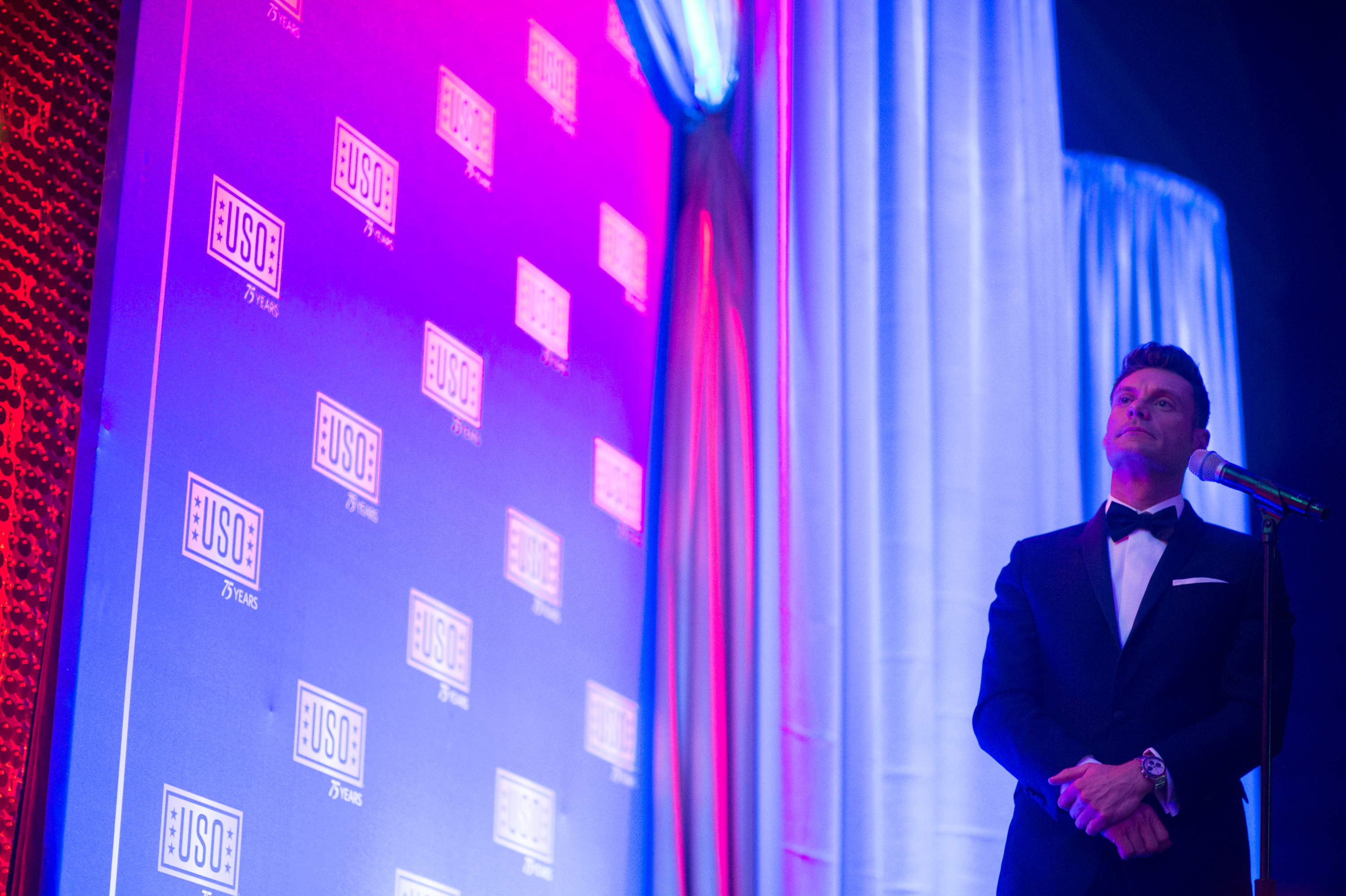 Ryan Seacrest, television personality and Master of Ceremonies for the event, waits to introduce a speaker during the 2016 United Service Organization (USO) Gala in Washington, D.C., Oct. 20, 2016. The USO celebrated 75 years of providing support to service members and recognized six service members of the year for heroic acts, as well as two USO volunteers who exemplified the spirit of all volunteers. (DoD Photo by U.S. Army Sgt. James K. McCann)